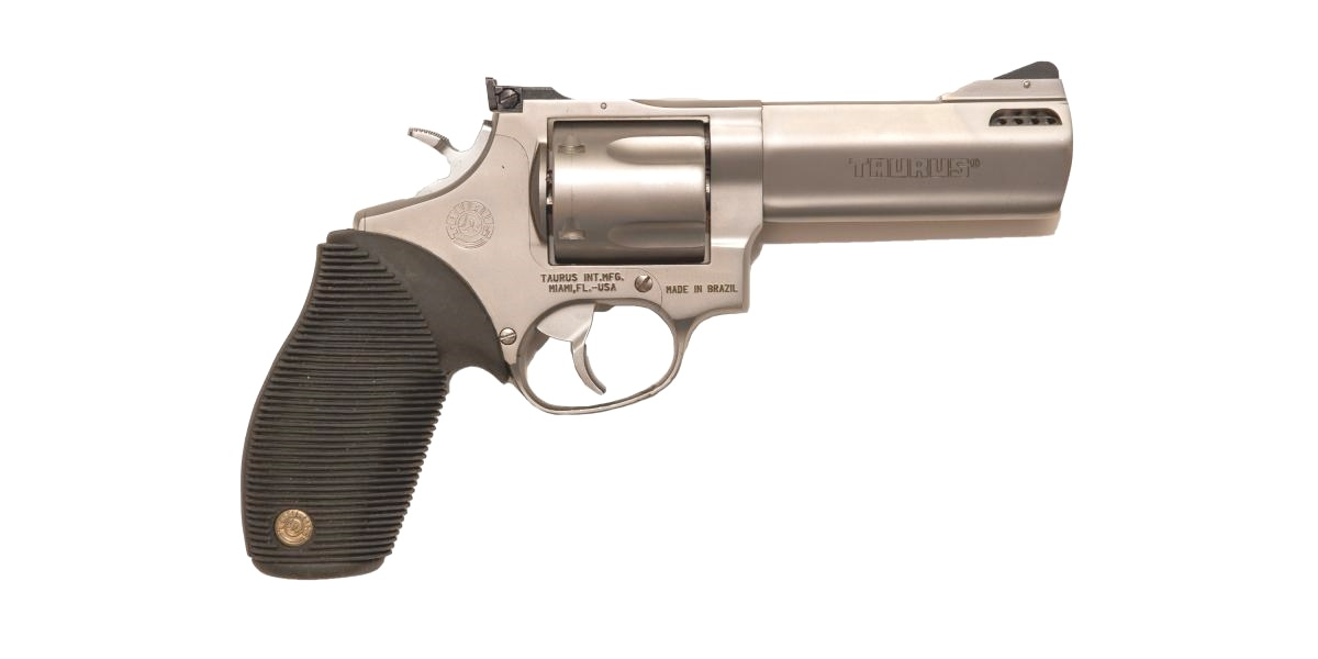 Picture of Taurus Tracker Caliber: .44 Cal (Magnum)